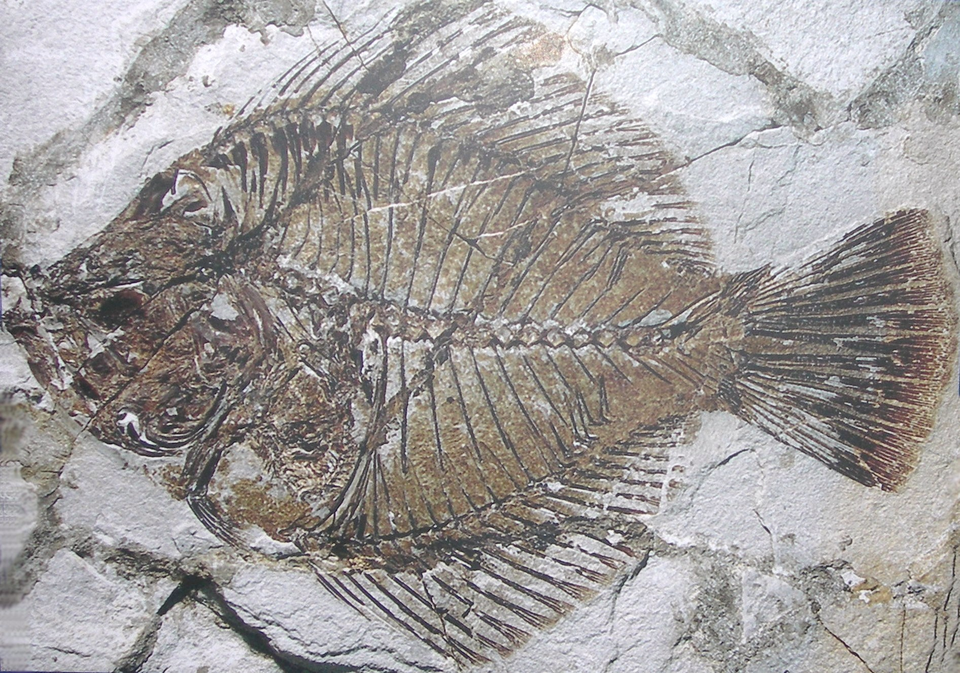 Amphistium fossil, at the Muséum d'Histoire naturelle de Genève.